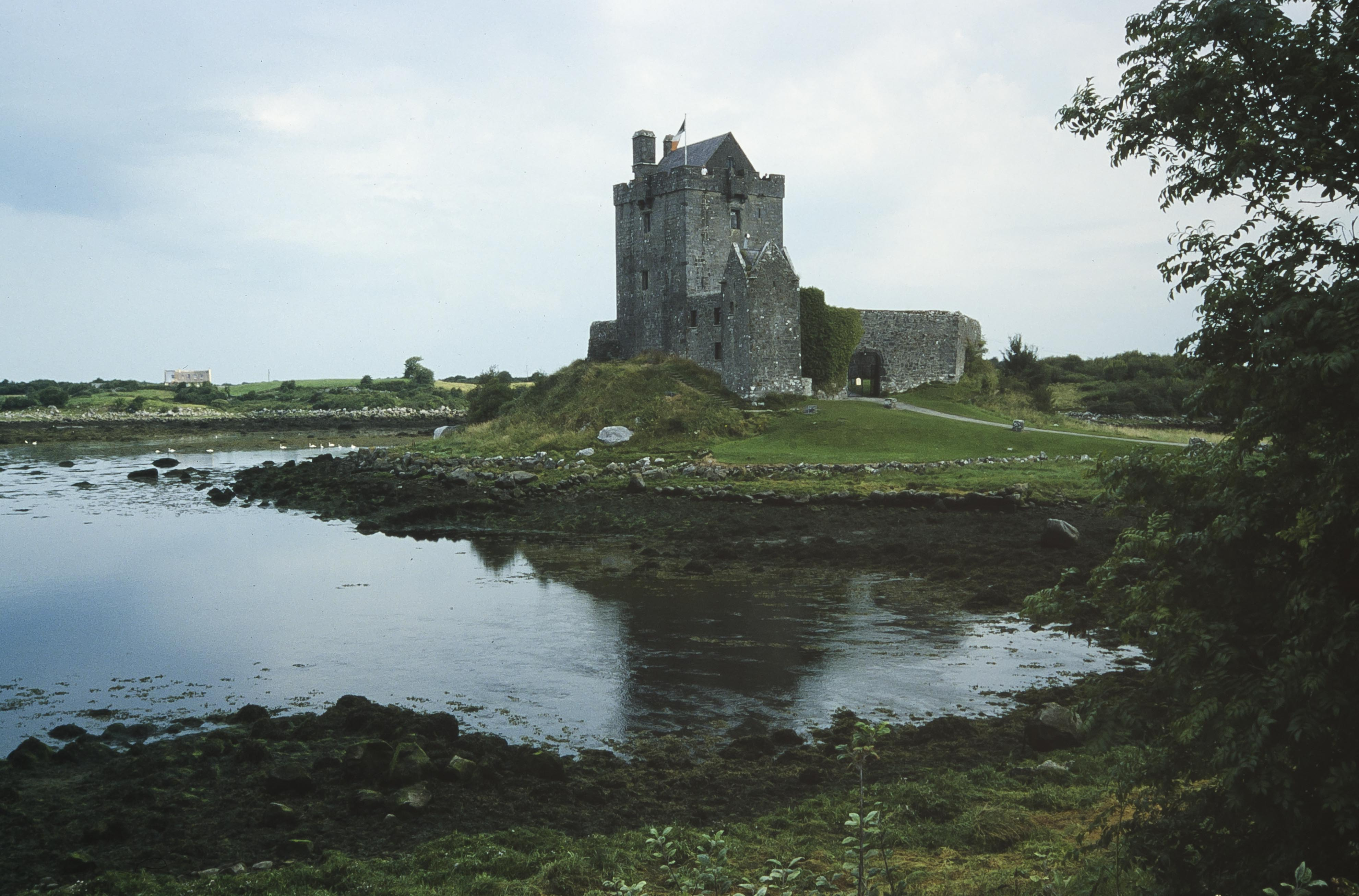 Dunguaire Castle, Kinvara, Ireland